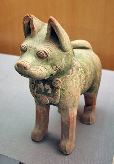 A pottery dog from the Chinese Han Dynasty.